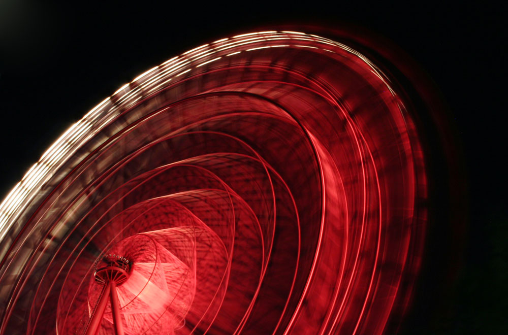 The ferris wheel at HEP Five in Osaka. Taken at night.